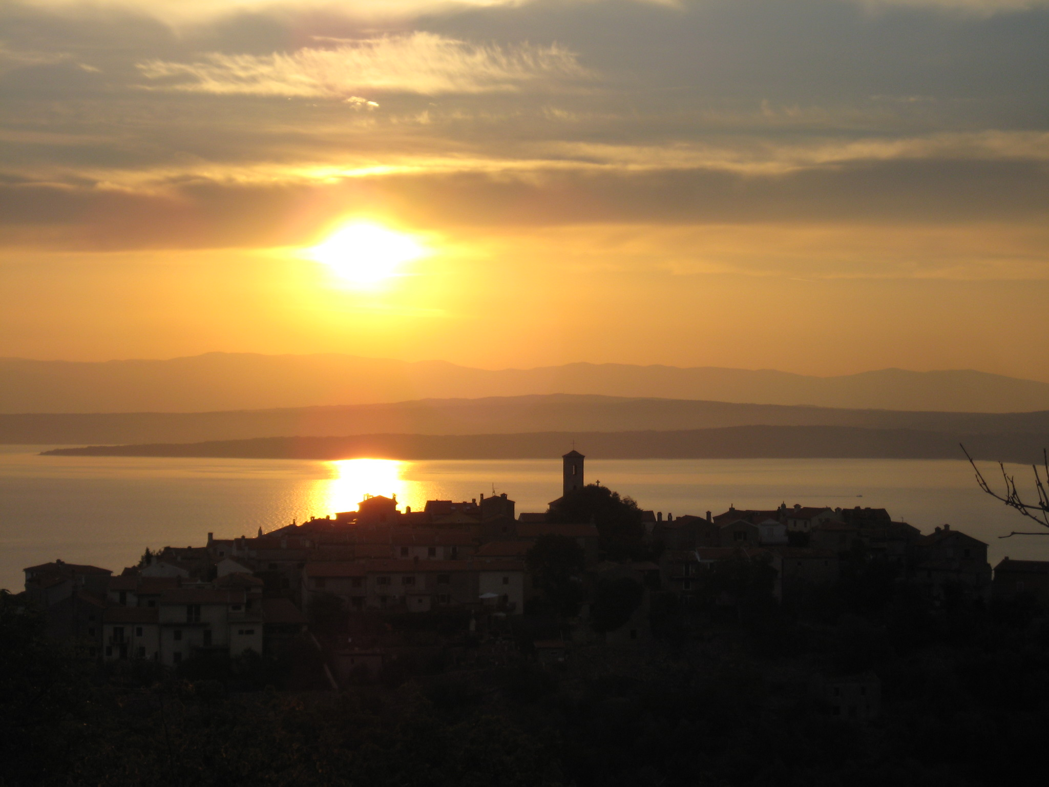 Sunrise over Beli